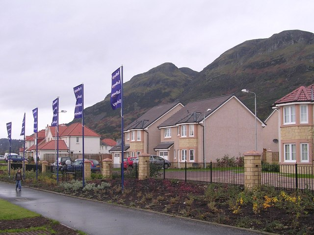 Weavers Wynd, Menstrie New housing scheme at Menstrie by Bellway Dumyat is the hill looming in the background.